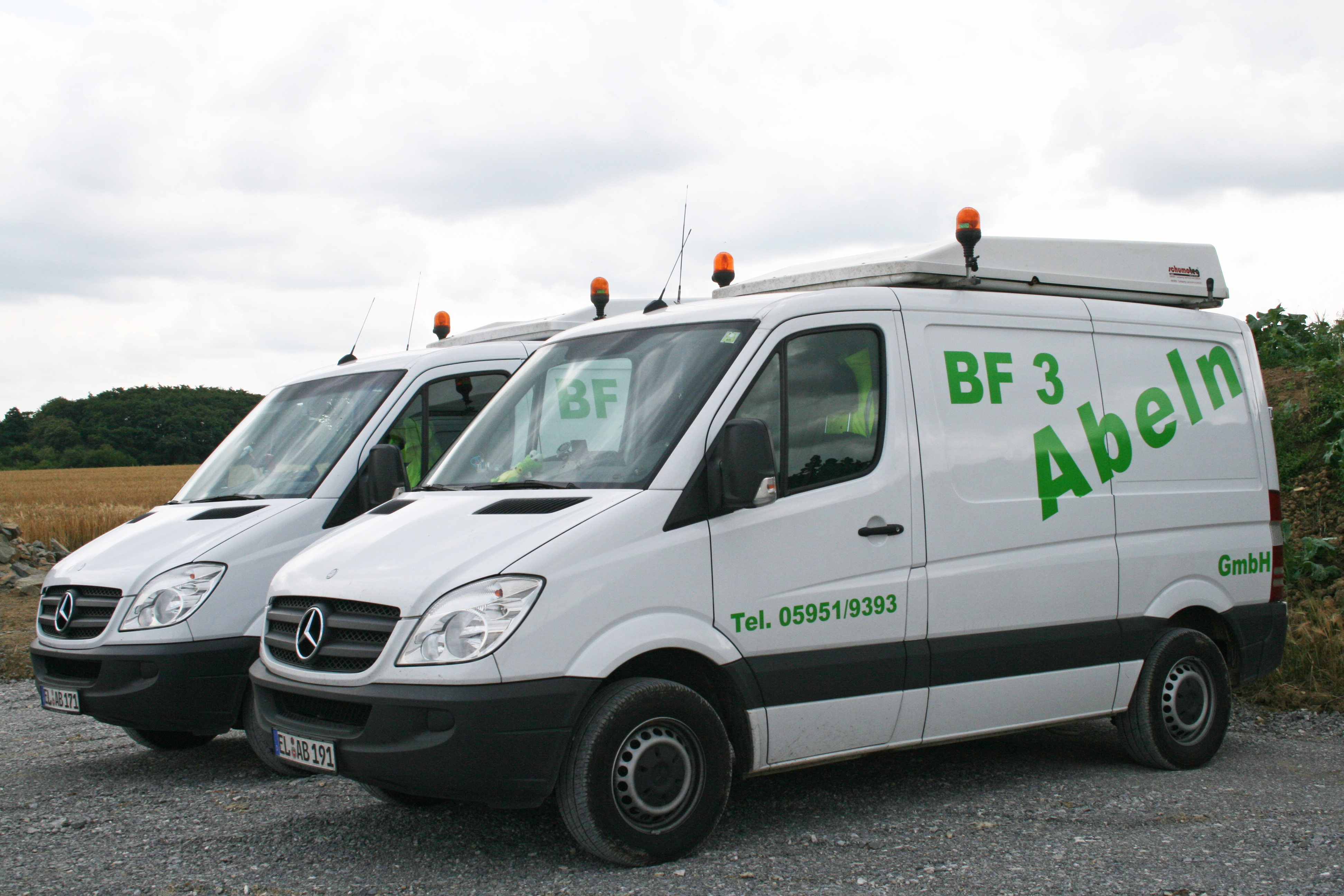 Heavy support vehicle at Büren wind farm.